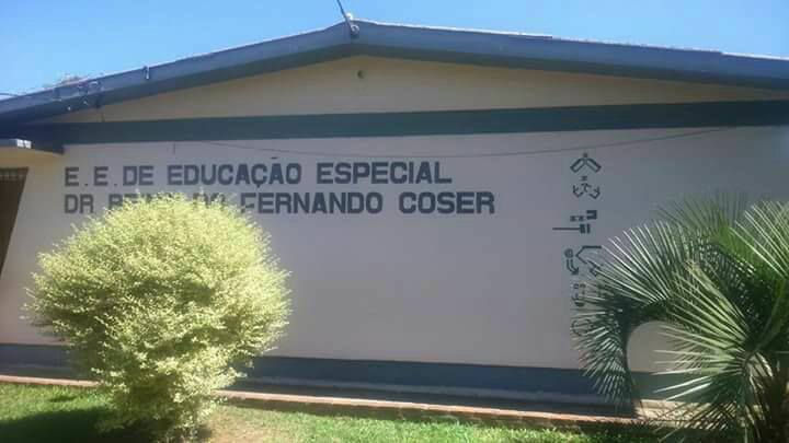 SignWriting on outside of building of school for the Deaf in Brazil.